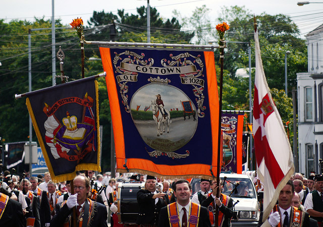 Orangemen parade in Bangor on 12th July 2010.